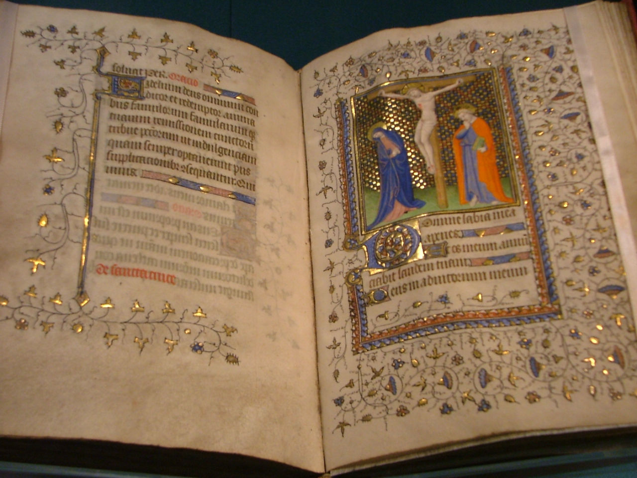 Manuscript illumination, Nelson-Atkins Museum of Art, Kansas City, Missouri, USA